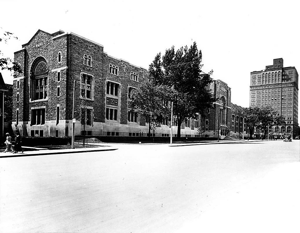 1933 Royal Ontario Museum expansion in foreground, with Park Plaza Hotel in background — in Toronto circa 1930s.